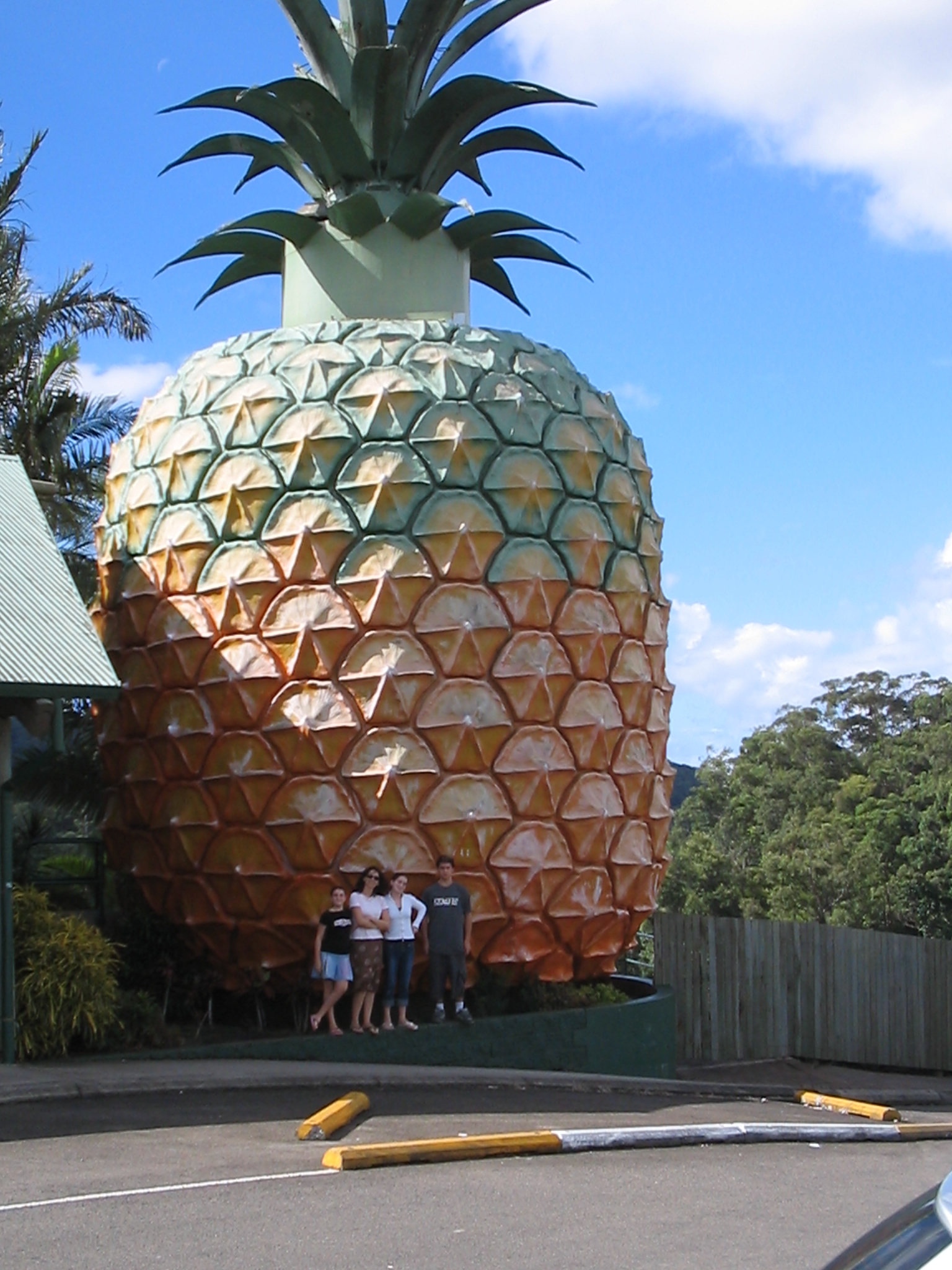 "Giant Pinapple" structure, Nambour, Australia.